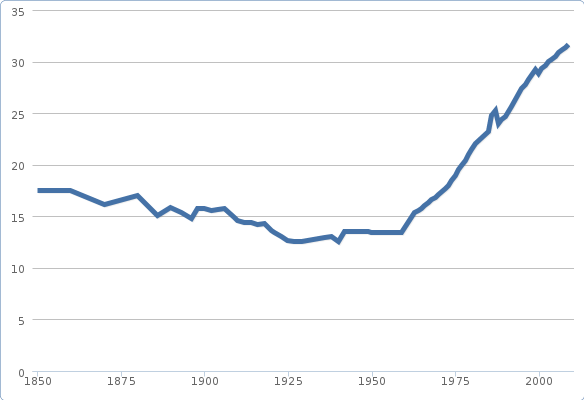 The number of physicians in the United States per 10,000 people, from 1850 to 2009.